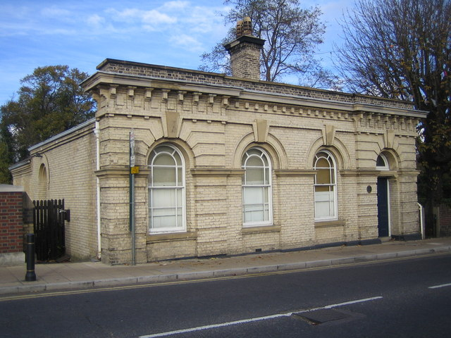 The former County Court in Biggleswade, Bedfordshire. This building is on Biggleswade's Heritage Trail and the following details are transcribed directly from the circular plaque visible to the left of the door. "Fredrick Hooper registrar and solicitor opened the building circa 1861 for use as a County Court for civil cases and offices for his solicitors practice next door at Brigham House. Customs & Excise later used the building before it became the job centre. The building is now a private house." The brick wall on the left is the parapet of the railway bridge and the road used to be the old A1 before the Biggleswade bypass was built, so the building occupied a prominent location in the town. Currently the house is to let.